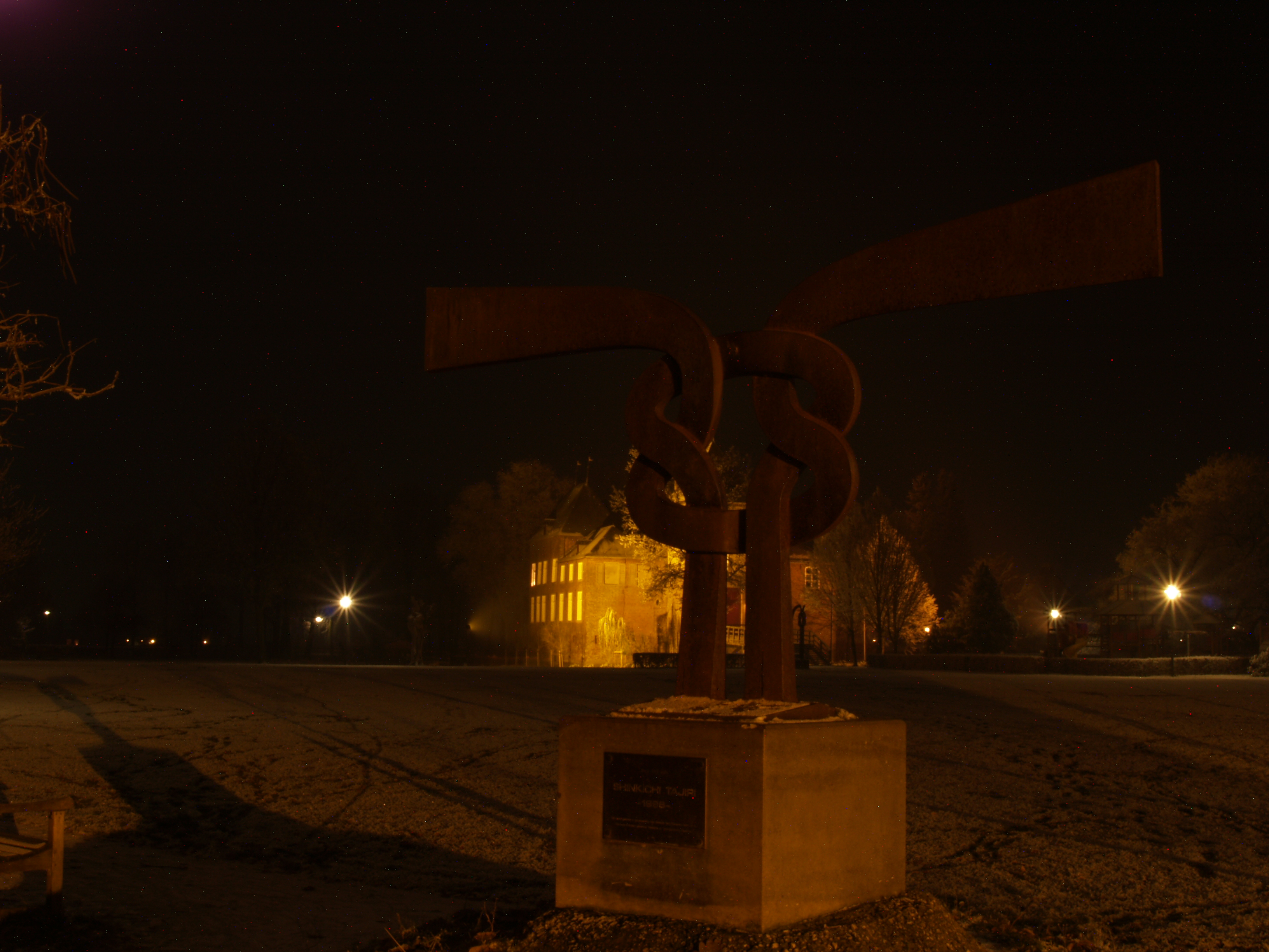 sculpture Knoop in Baarlo by Shinkichi Tajiri/The Netherlands